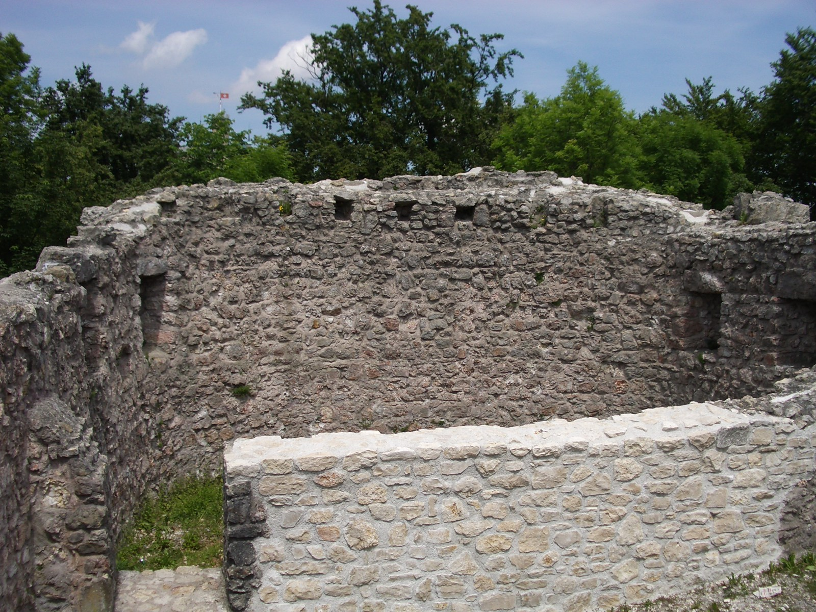 Oftringen AG, Switzerland